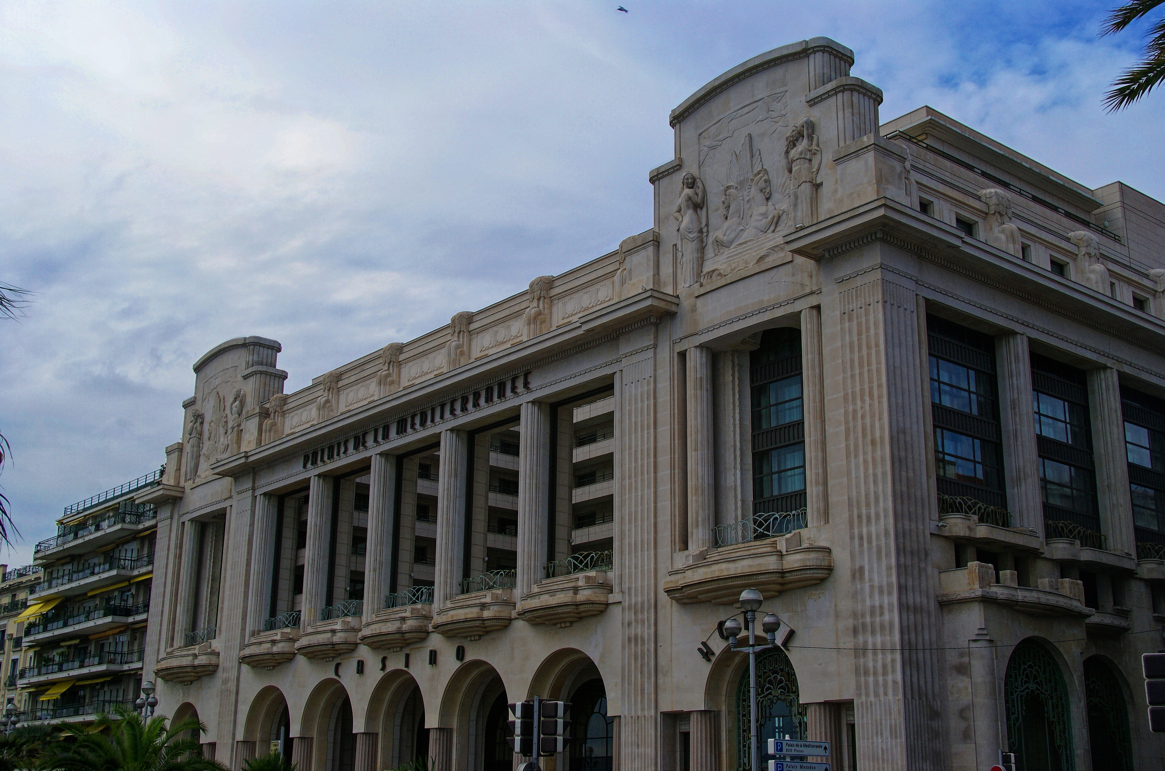 Nice - Promenade des Anglais - View NW on Palais de la Méditeranée 1929 by Charles & Marcel Dalmas - Art Déco